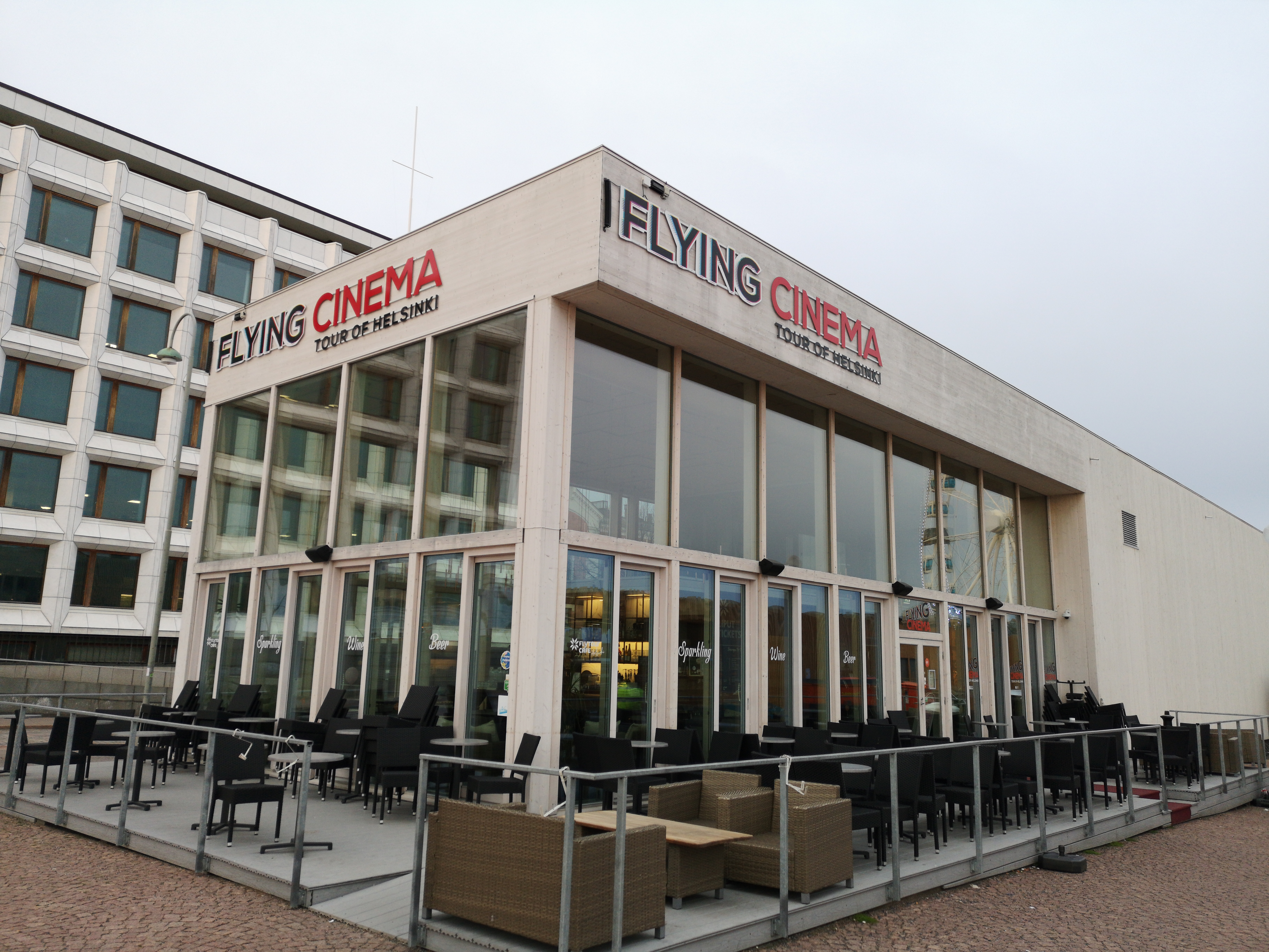 Flying Cinema Helsinki main building and cafe terrace